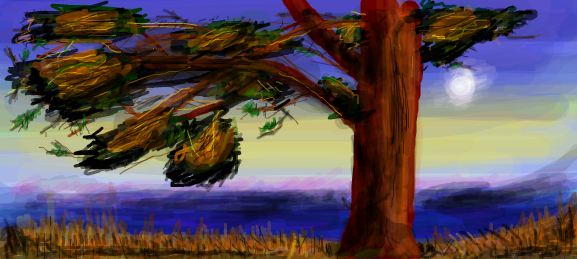 Artist: Aaron Doucett. Created with the "Facebook Graffiti" application.